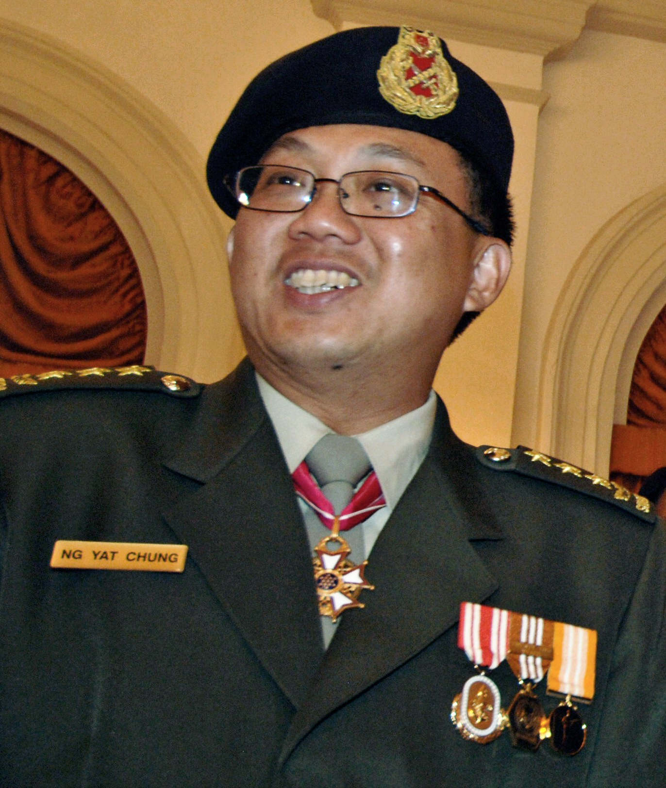 Lt. Gen. Ng Yat Chung, who served as Chief of Defence Force of Singapore from 1 April 2003 to 23 March 2007, meeting Chairman of the Joint Chiefs of Staff Gen. Richard B. Myers, United States Air Force at the Istana in Singapore on 3 June 2005. Myers was awarded Singapore's Darjah Utama Bakti Cemerlang (Distinguished Service Order).